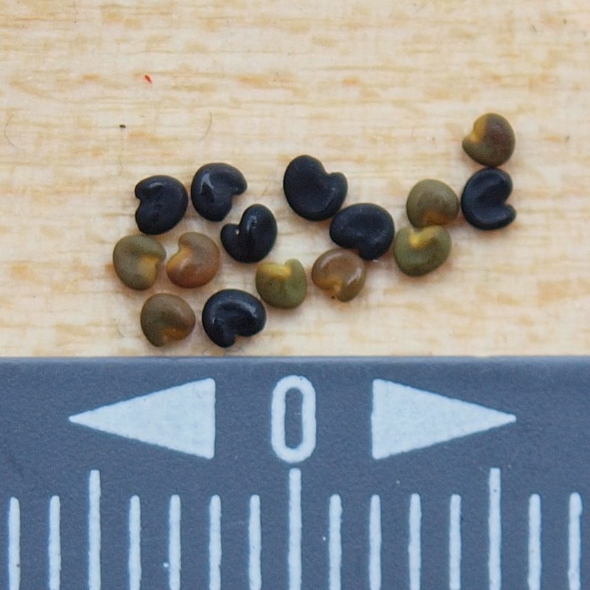 Oxytropis splendens seed